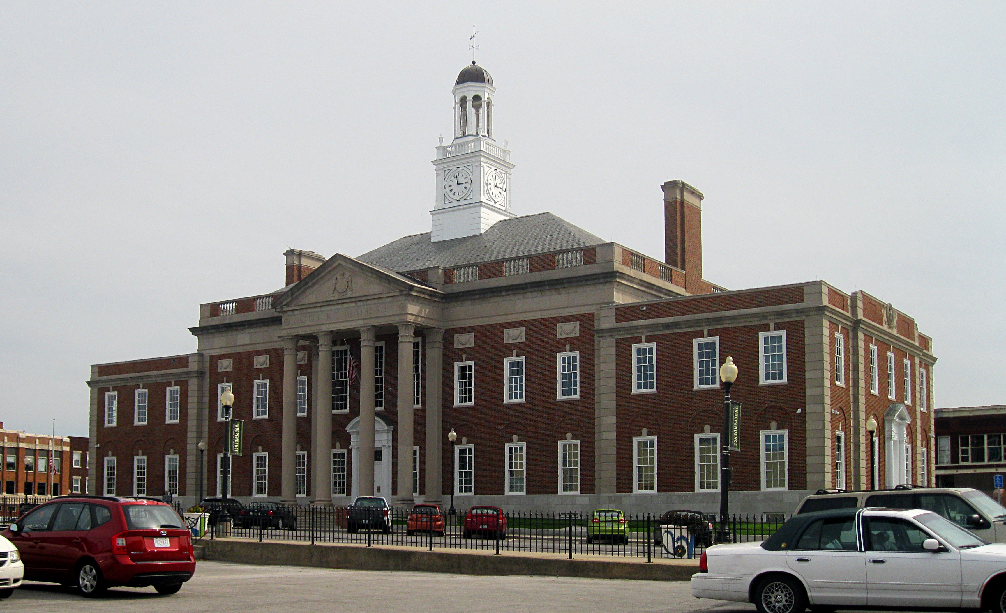 Jackson County Courthouse in Independence, Missouri, listed on the National Register of Historic Places.